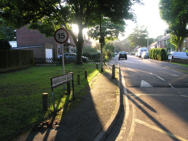 Entrance to Hurricane Road, King's Hill. The street name may seem strange initially, but the proximity of this estate to the Second World War West Mailling airfield means that this road derived its name from the Hawker Hurricane aeroplane. Other street names in the estate are also derived from WW2 aircraft and include Javelin Road, Spitfire Road, Beafughter Road and Mosquito Road.